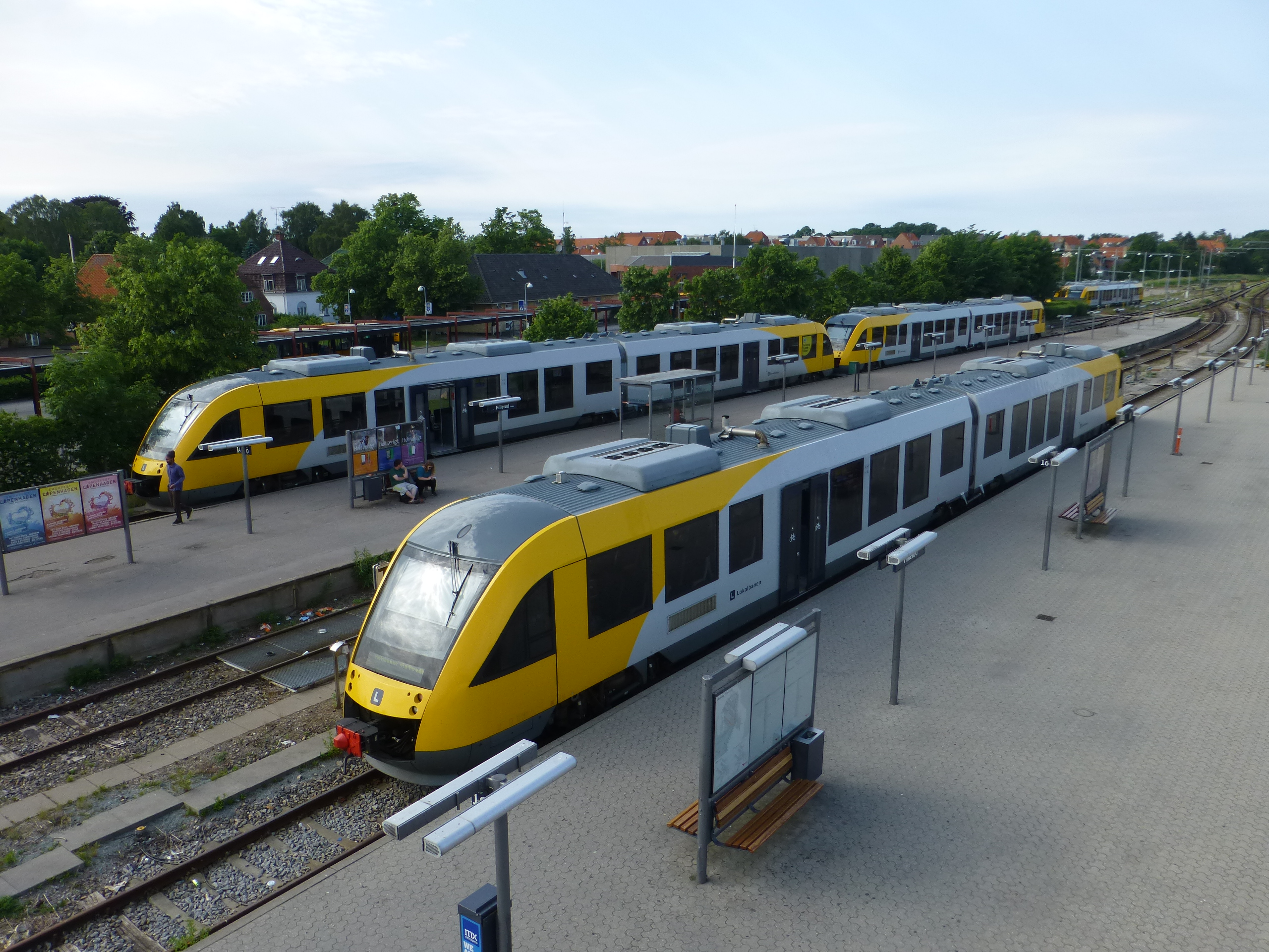 Hillerød Station in Denmark where several railway lines meets. Lint 41 for Helsingør via Gilleleje and via Fredensborg.